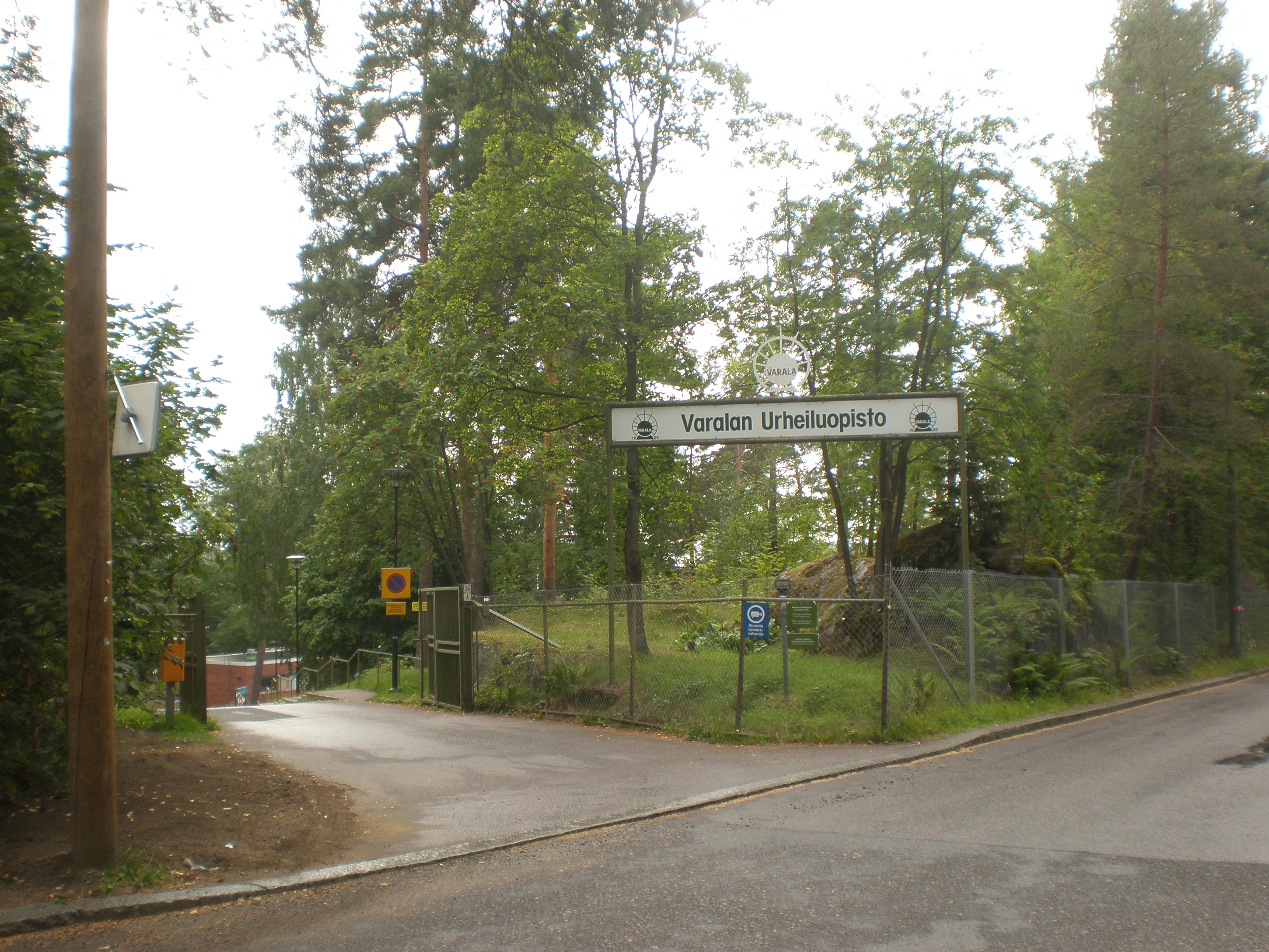 Gate of Varala Sports Institute